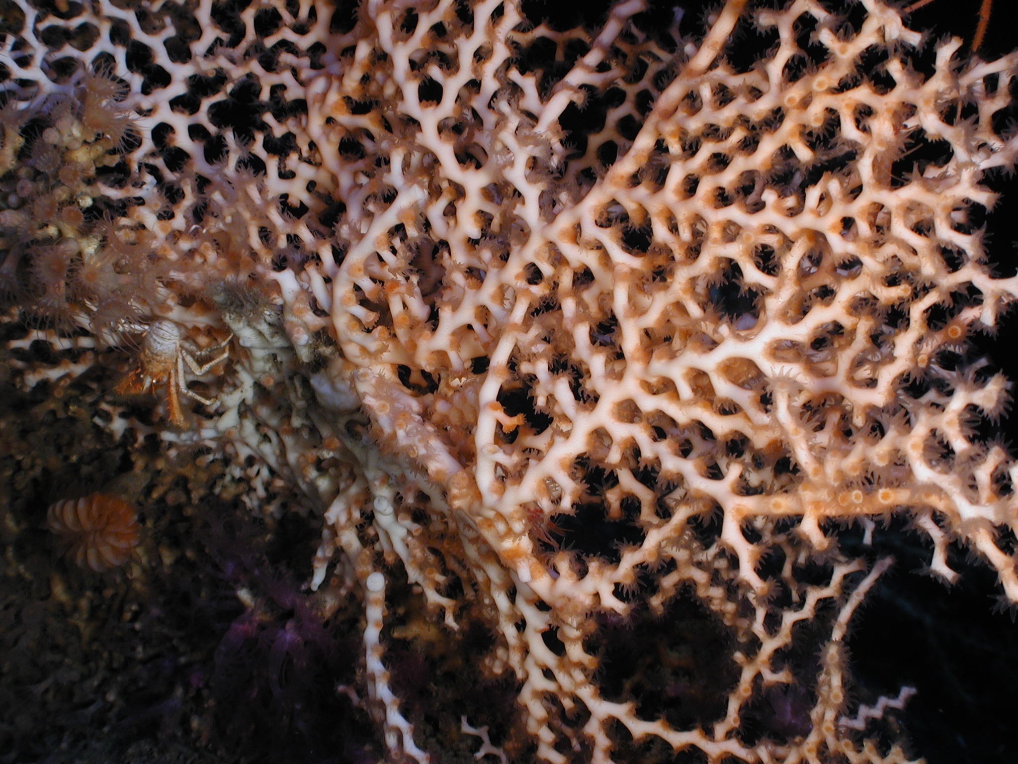 Operation Deep Slope 2007. Madrepora oculata coral with squat lobster. Gulf of Mexico.